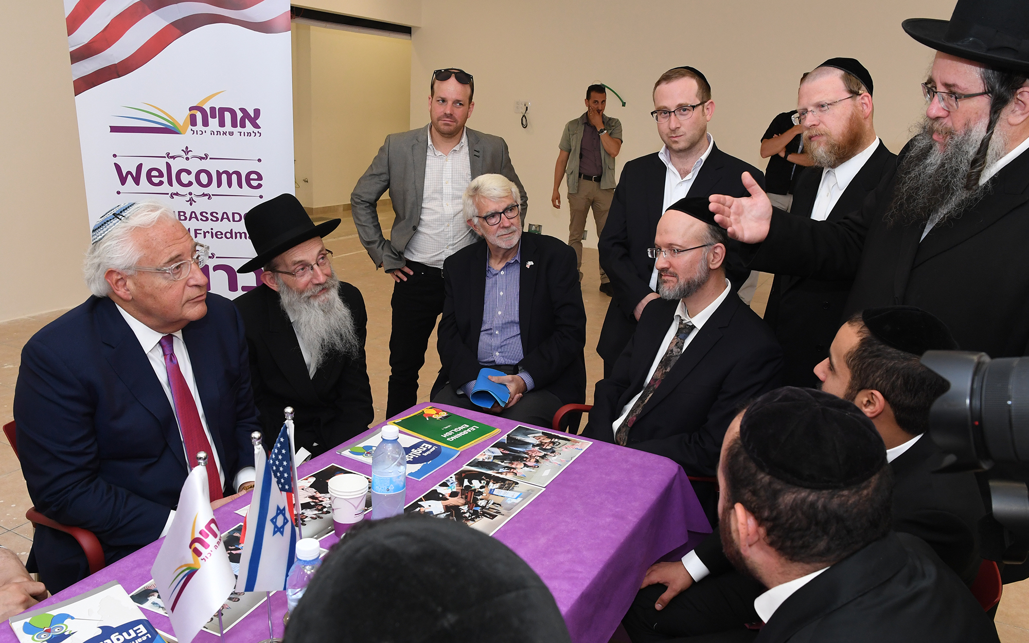 On May 22nd Ambassador David Friedman visited the Achiya Learning Center in Bnei Brak, which offers occupational, emotional, psychological and hydrotherapy therapy treatment for children up to the age of 12 mainly from the ultra-orthodox community. The center also provides remedial reading and Gemara instruction. Via this work, Achiya has raised greater awareness within this conservative community for the need of early intervention. This has helped diminish the stigma of receiving professional therapy, and, as a result, more parents are now seeking these services for their children. The Ambassador took a tour of the center and was able to meet the professional staff, observe therapy sessions and engage with young children. He also met with students who study at the Achiya College, where the Embassy funds English enrichment classes to help ultra-orthodox pre-service teachers learn English. Some of these students (men between the ages of 24-50) are studying towards their B.Ed and are learning English for the first time. The Embassy-funded courses have reached 345 students over three years, empowering them both personally and professionally.